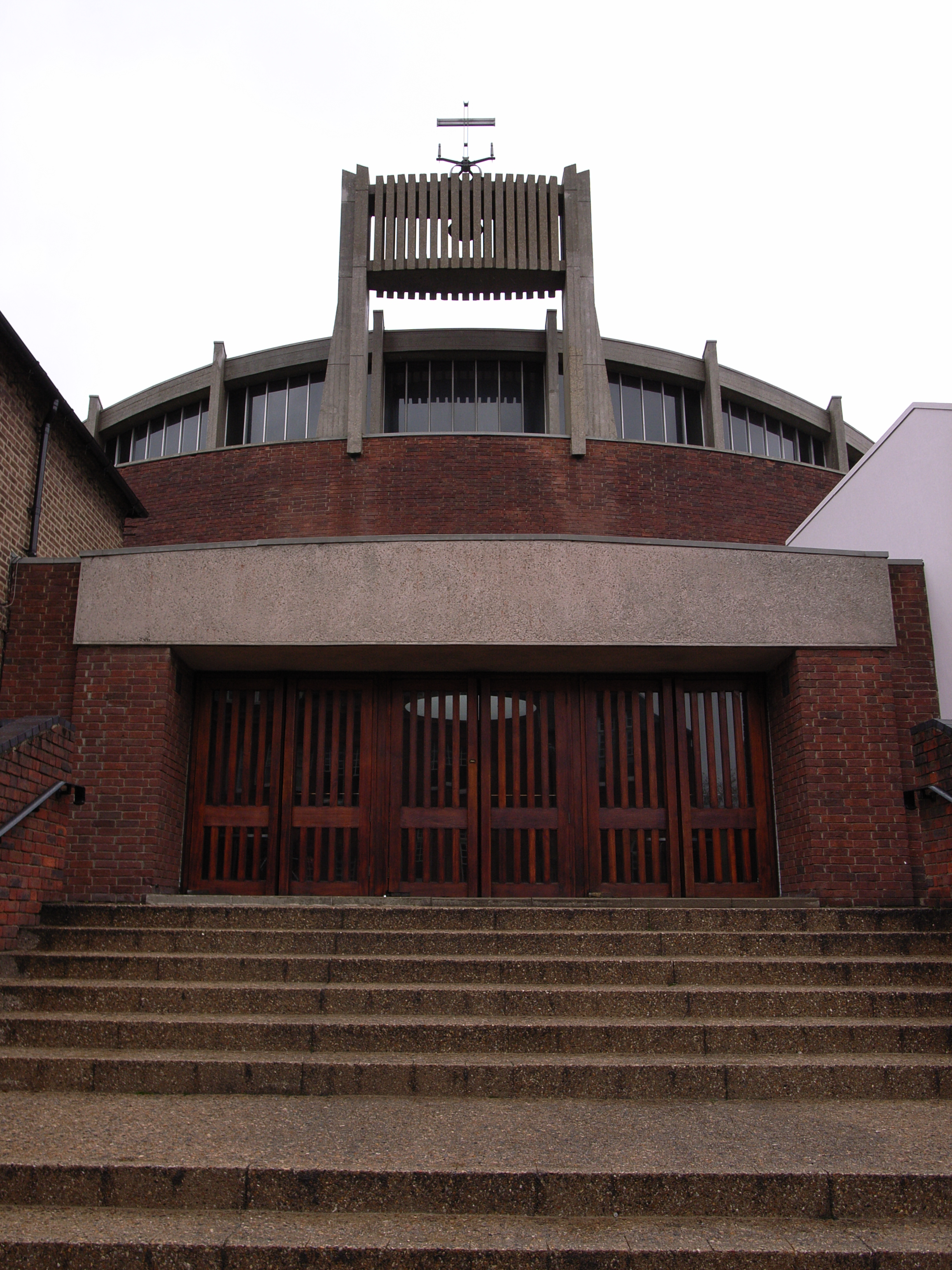 Saint Thomas More in Maresfield Gardens, South Hampstead, London, England.